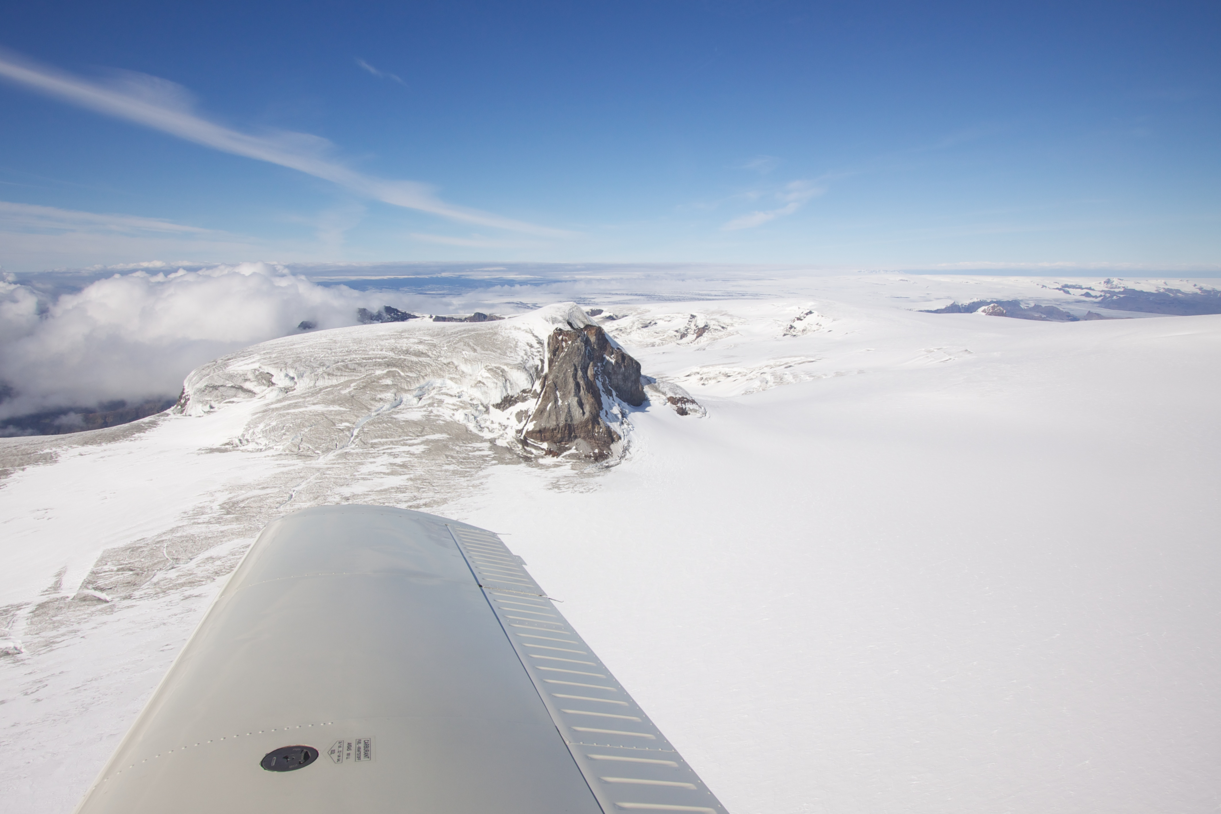 Aerial photo of Hvannadalshnúkur, Vatnajökull, Iceland